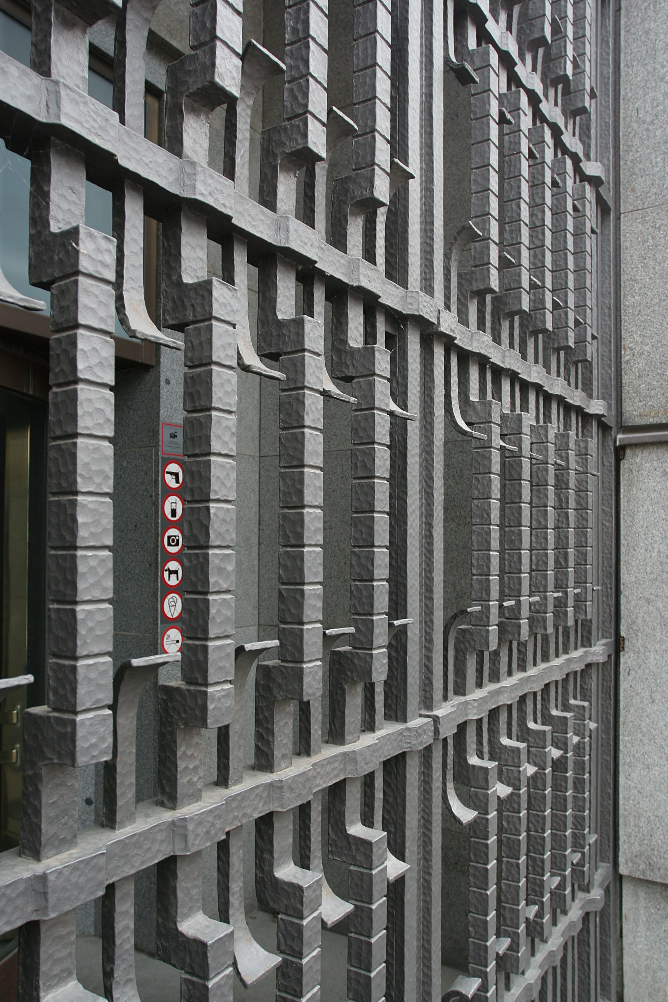 Wrought grille in front of the entrance to the Czech National Bank building in Prague